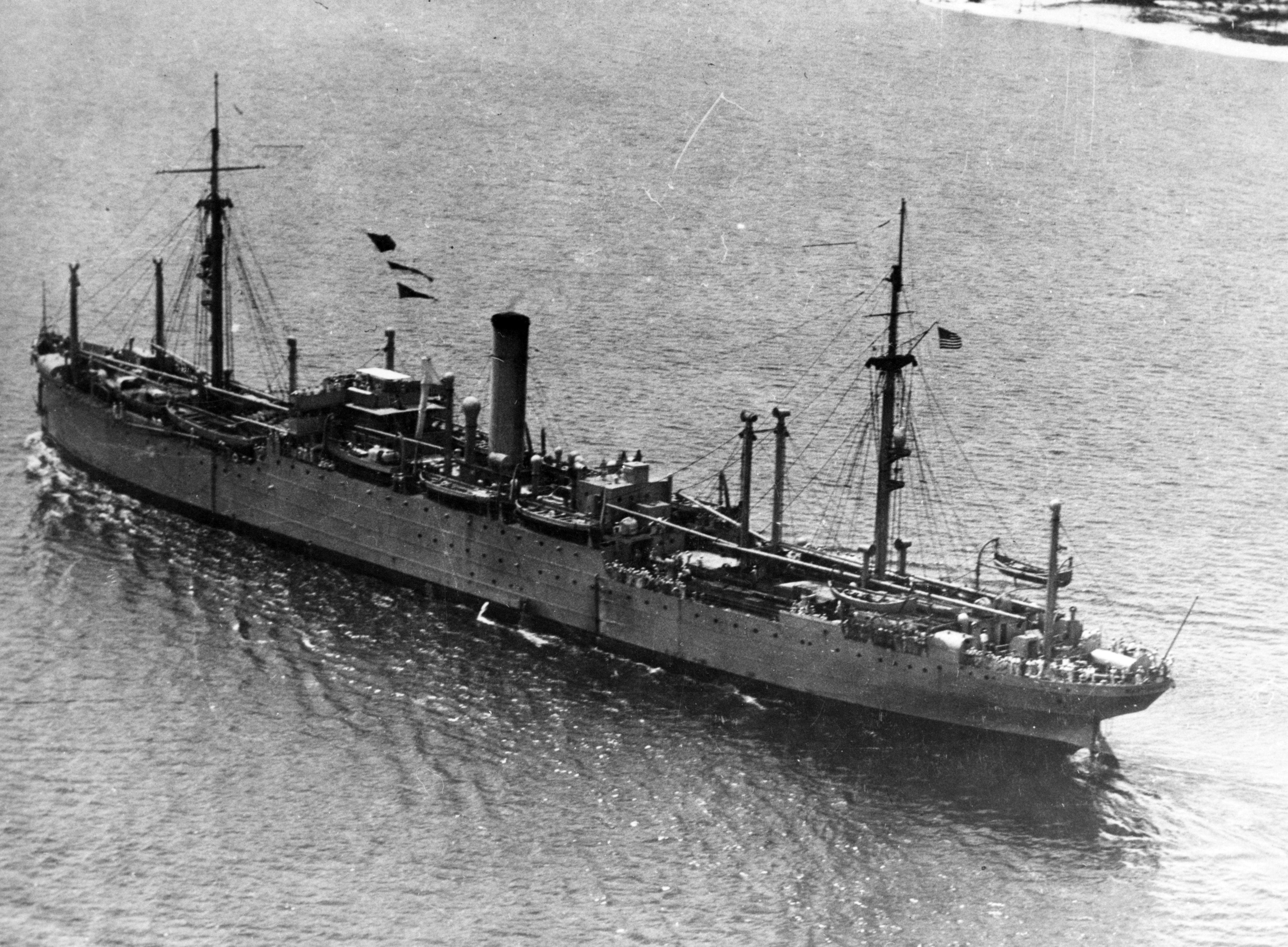 The U.S. Navy stores ship USS Rappahannock (AF-6) underway off Pensacola, Florida (USA), in July 1924.